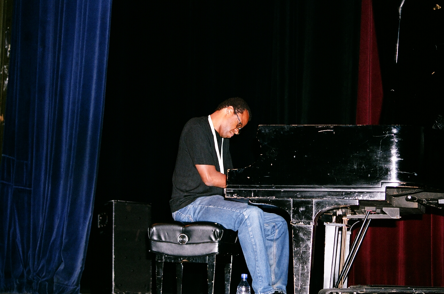 avant-garde pianist Matthew Shipp